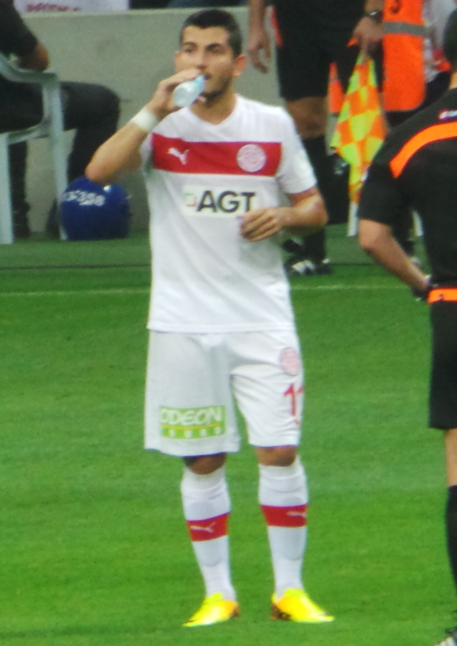 Emrah with Antalyaspor